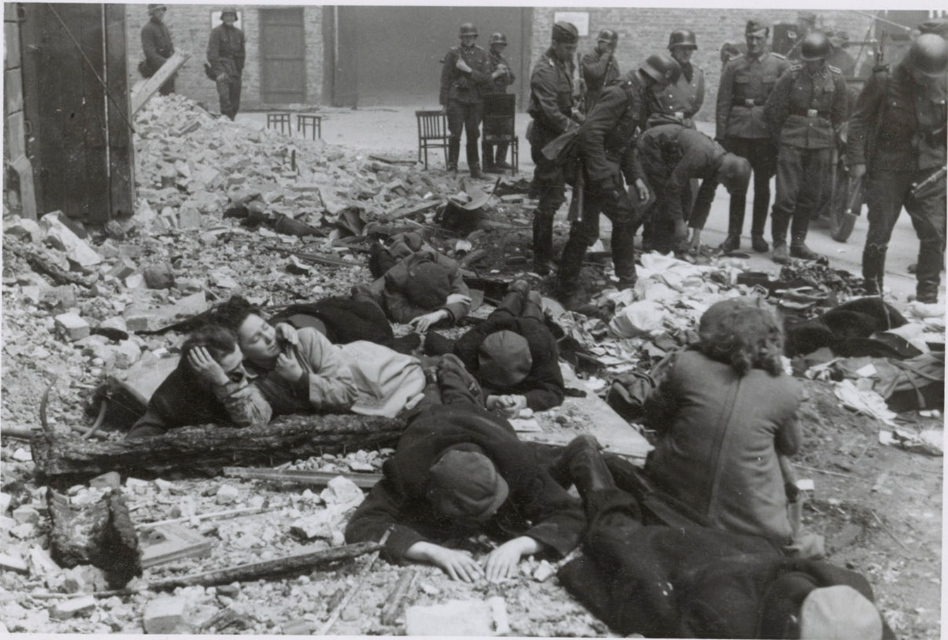 Stroop Report: a report written by Jürgen Stroop for Heinrich Himmler about liquidation of Warsaw Ghetto in May 1943.